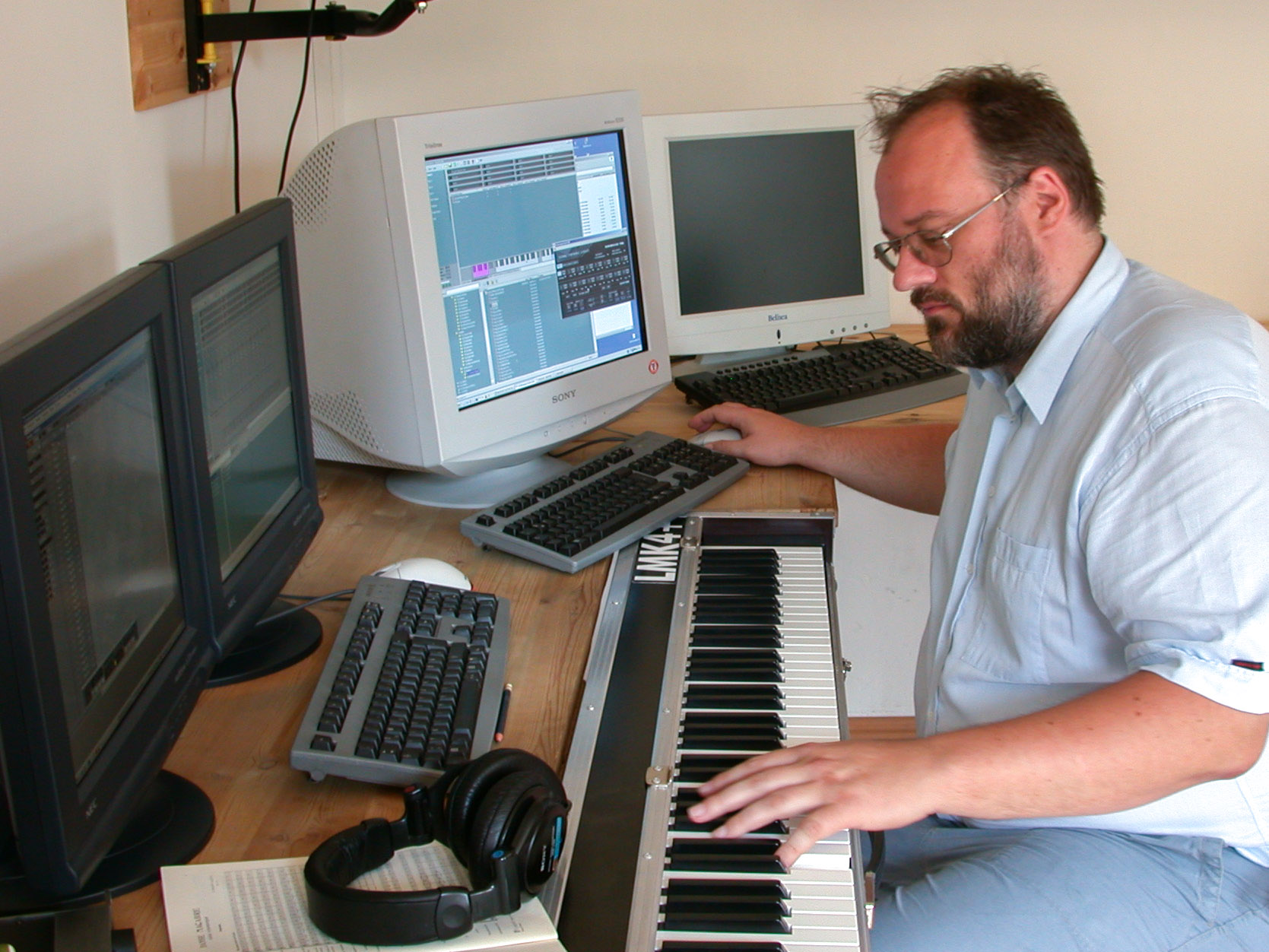 The composer and musician Herbert Tucmandl experiments with the first samples of his Vienna Symphonic Library, a sampling library for composers and musicians. Photo by Maximilian Schönherr, Vienna, 2004.